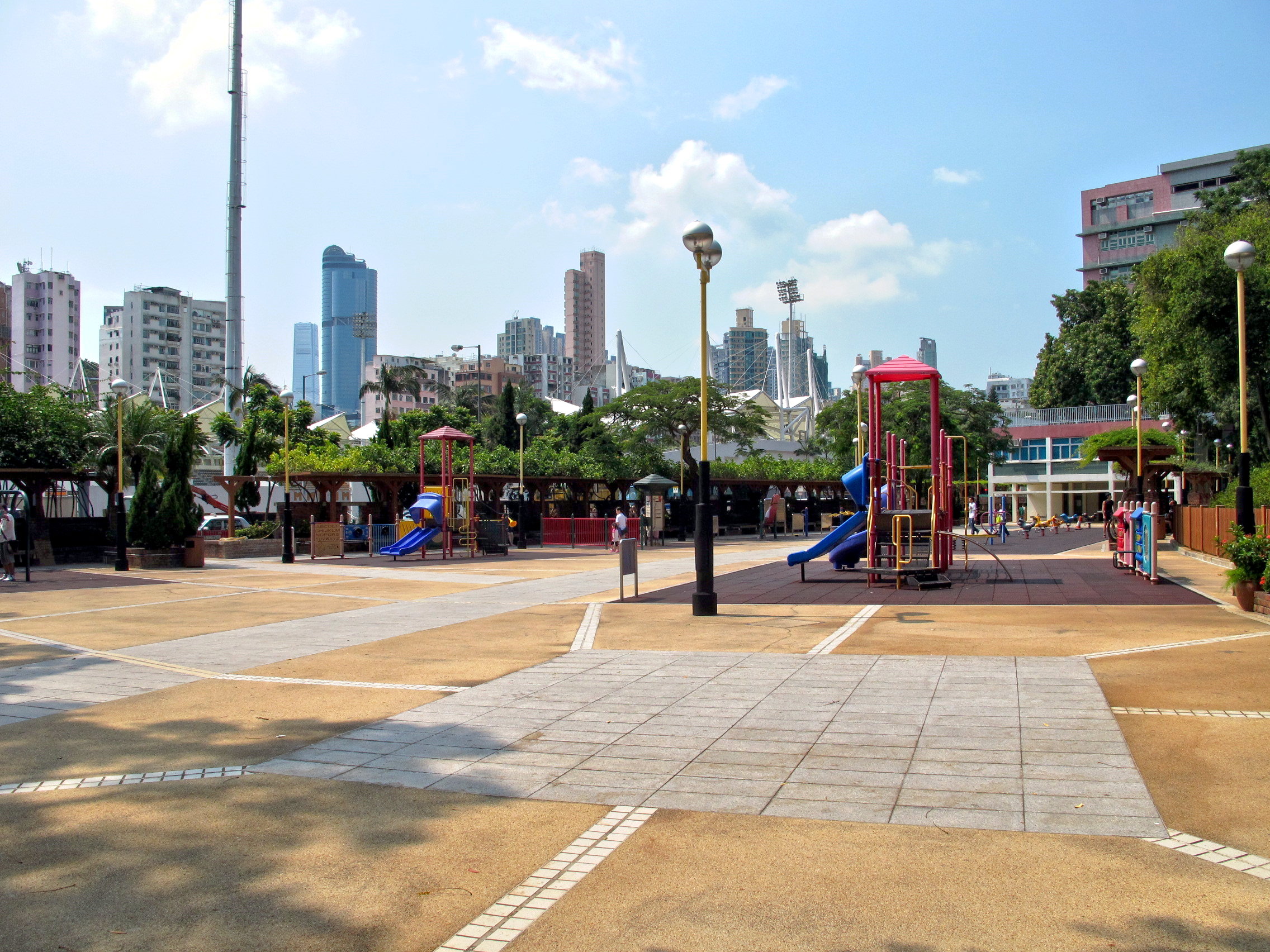 Fa Hui Park Children Play Area